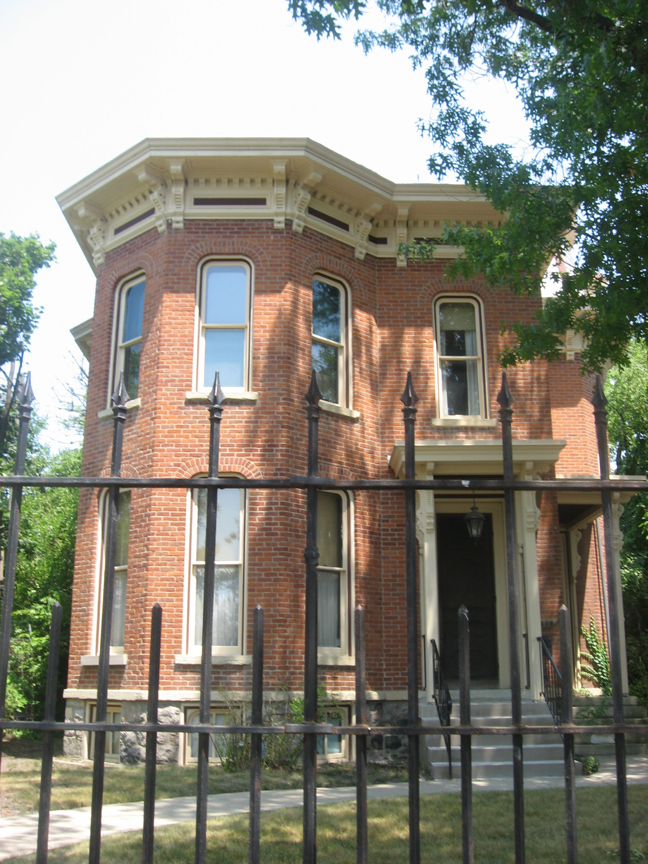 Front of the Chauncey N. Lawton House, located at 405 W. Wayne Street in South Bend, Indiana, United States. Built in 1872, it is listed on the National Register of Historic Places.